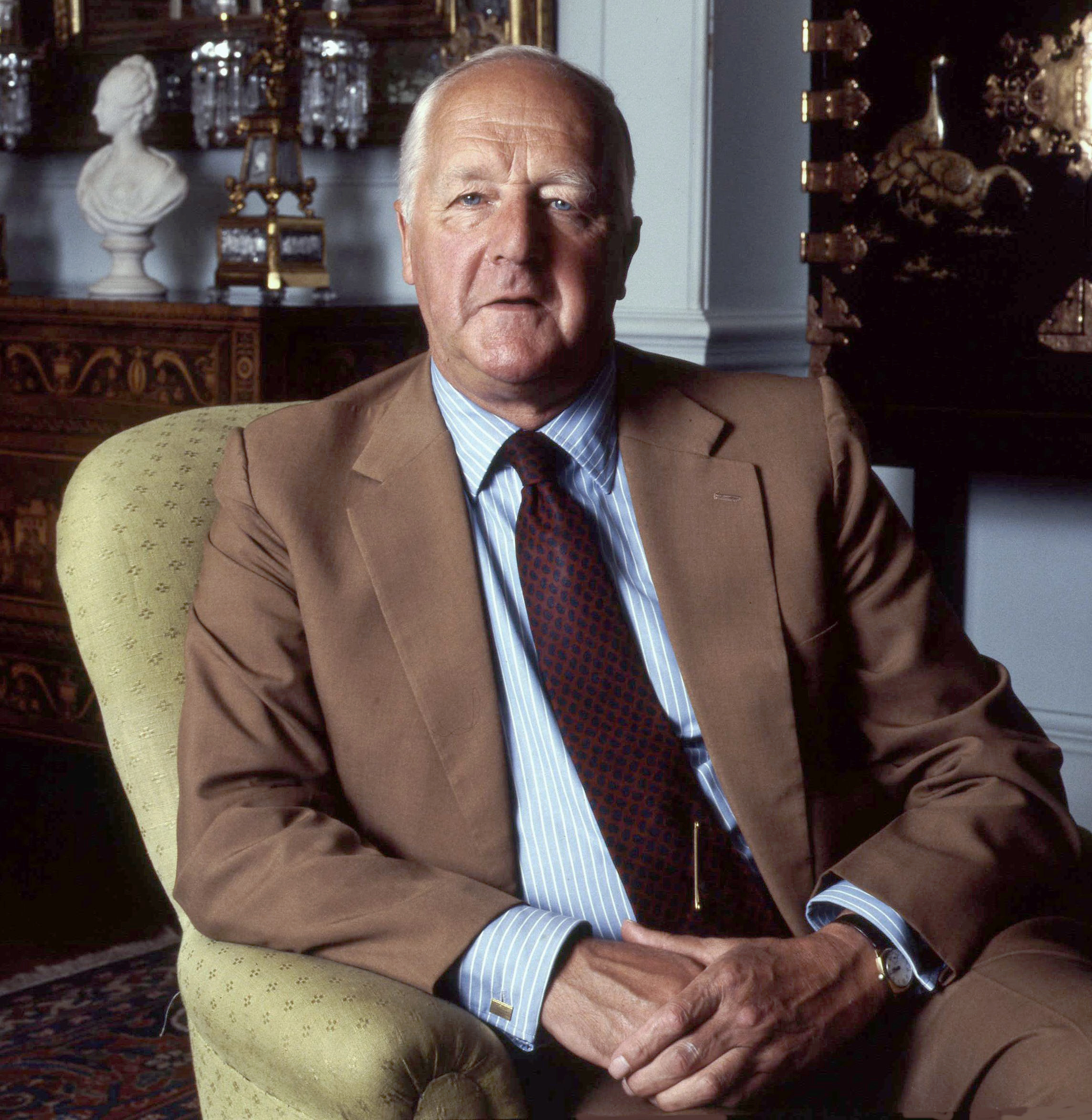 portrait of The 11th Duke of Grafton